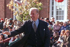 Joe Biden at the "Return Day" Parade in Sussex County, Delaware, November, 1998.